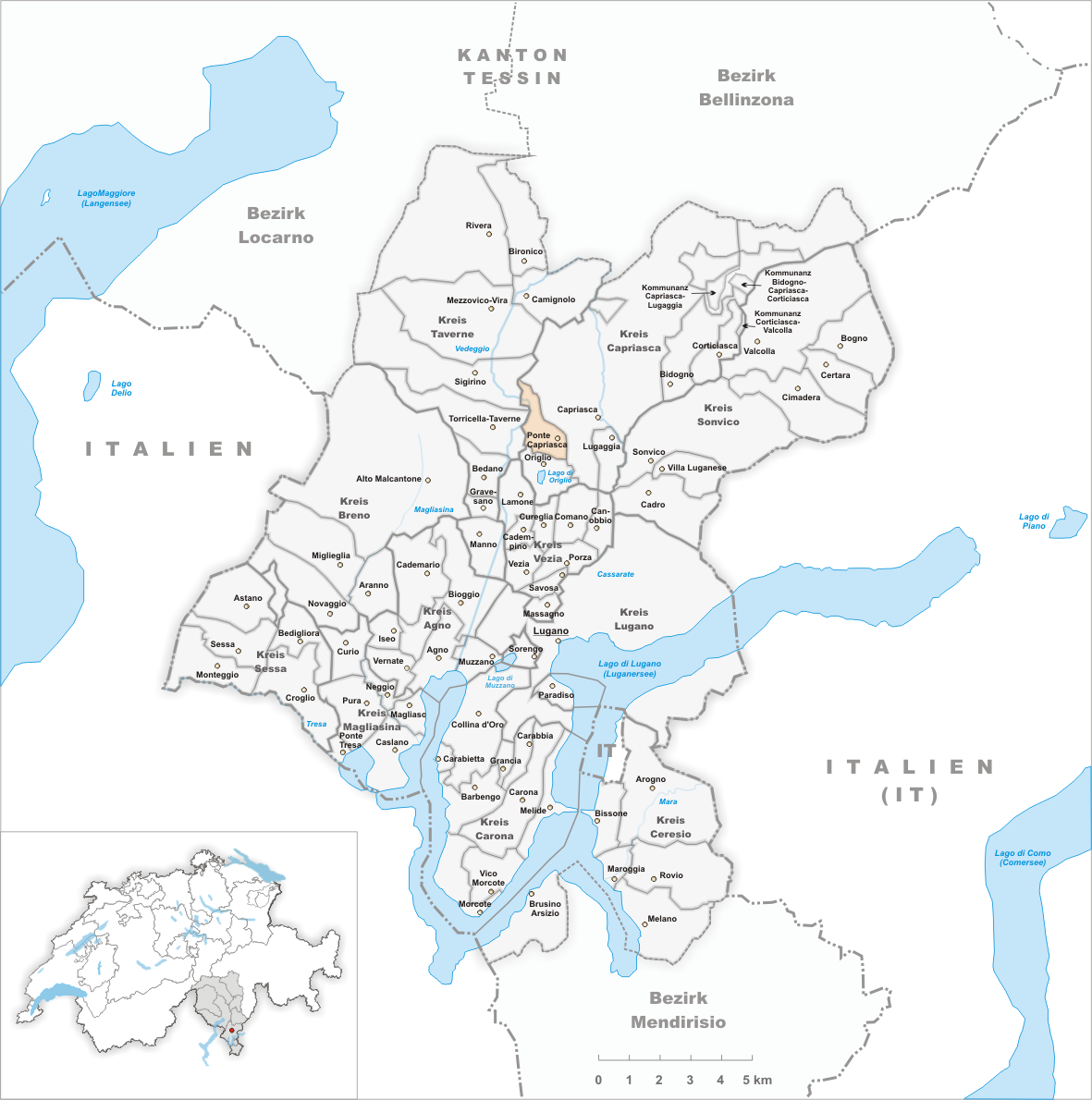 Municipality Ponte Capriasca